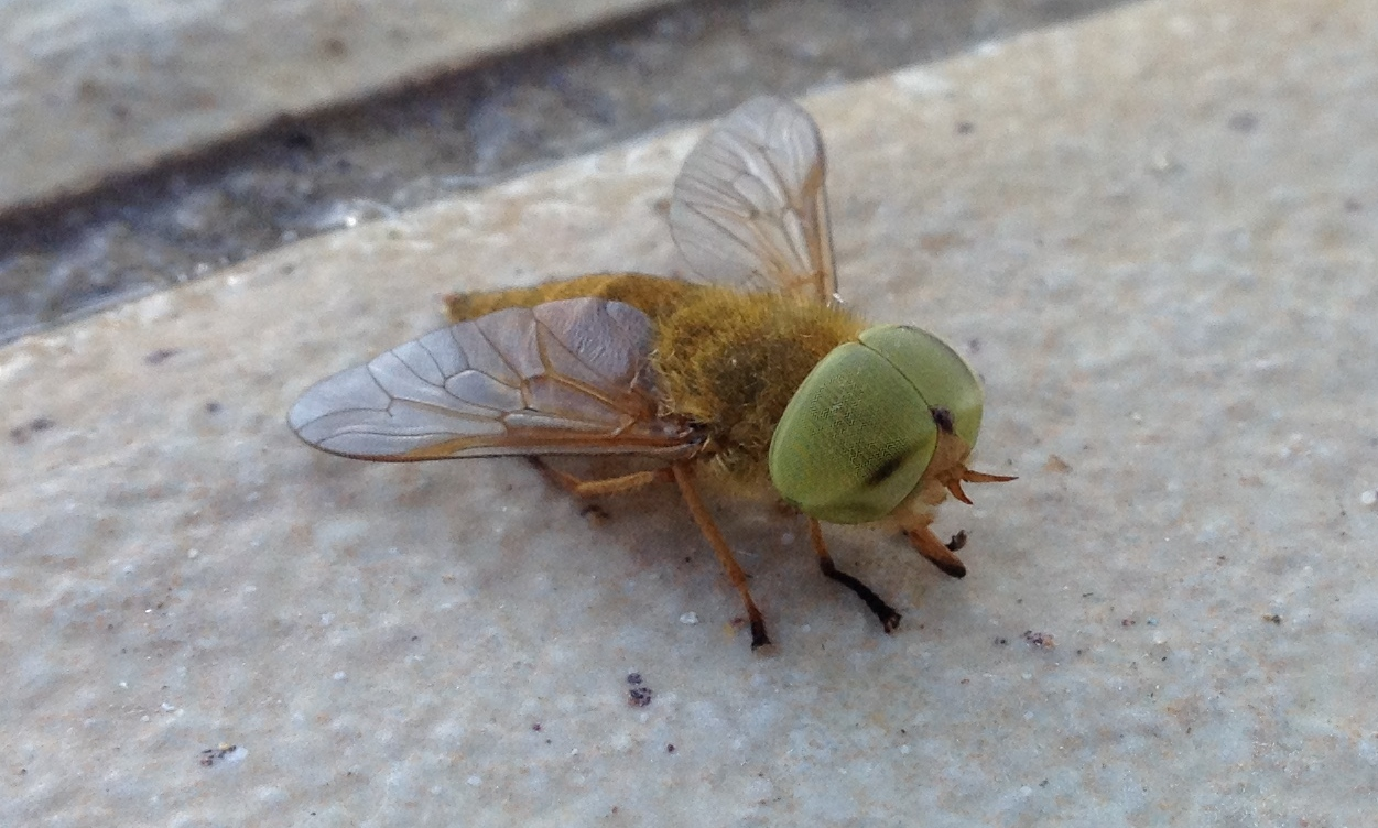 Atylotus loewianus